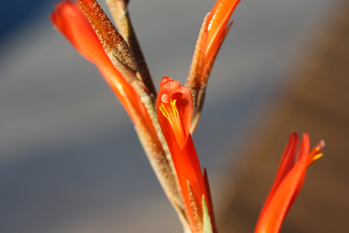 Pepinia caricifolia flower